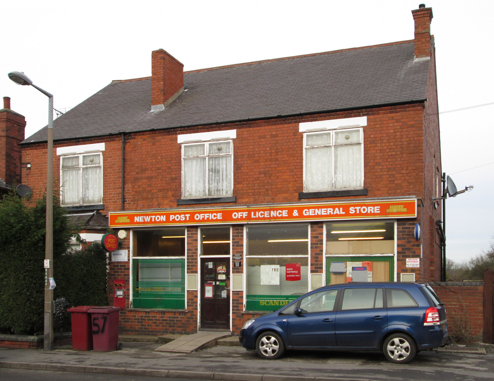 Newton - Post Office on Main Street